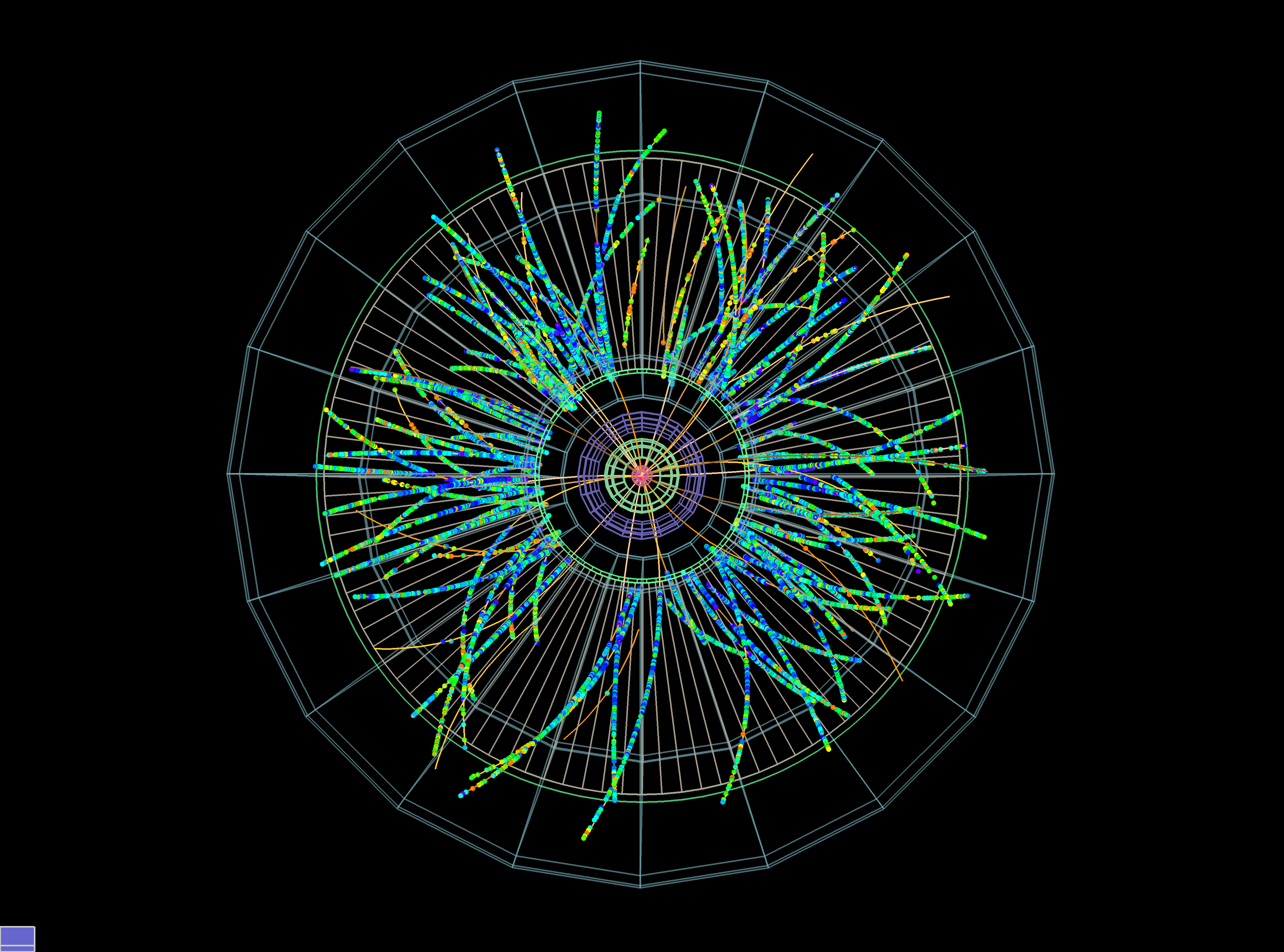 ALICE records first proton-lead collisions at the LHC